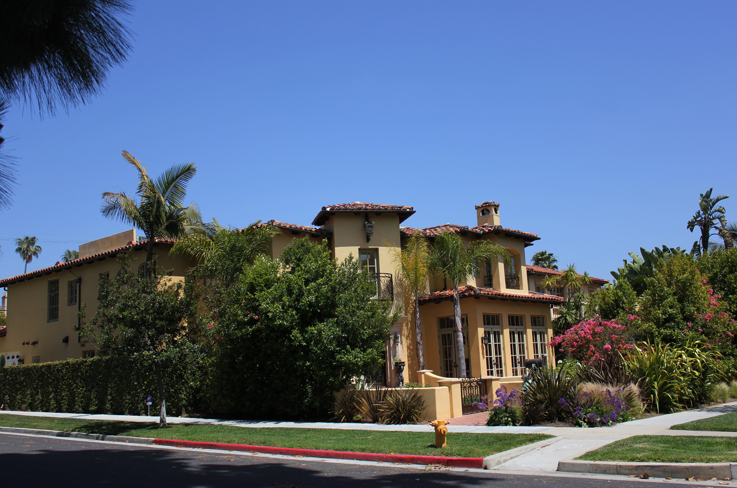 Typical home in the North of Montana neighborhood in Santa Monica, California - Zip code 90402, among the most expensive in California and in the U.S.